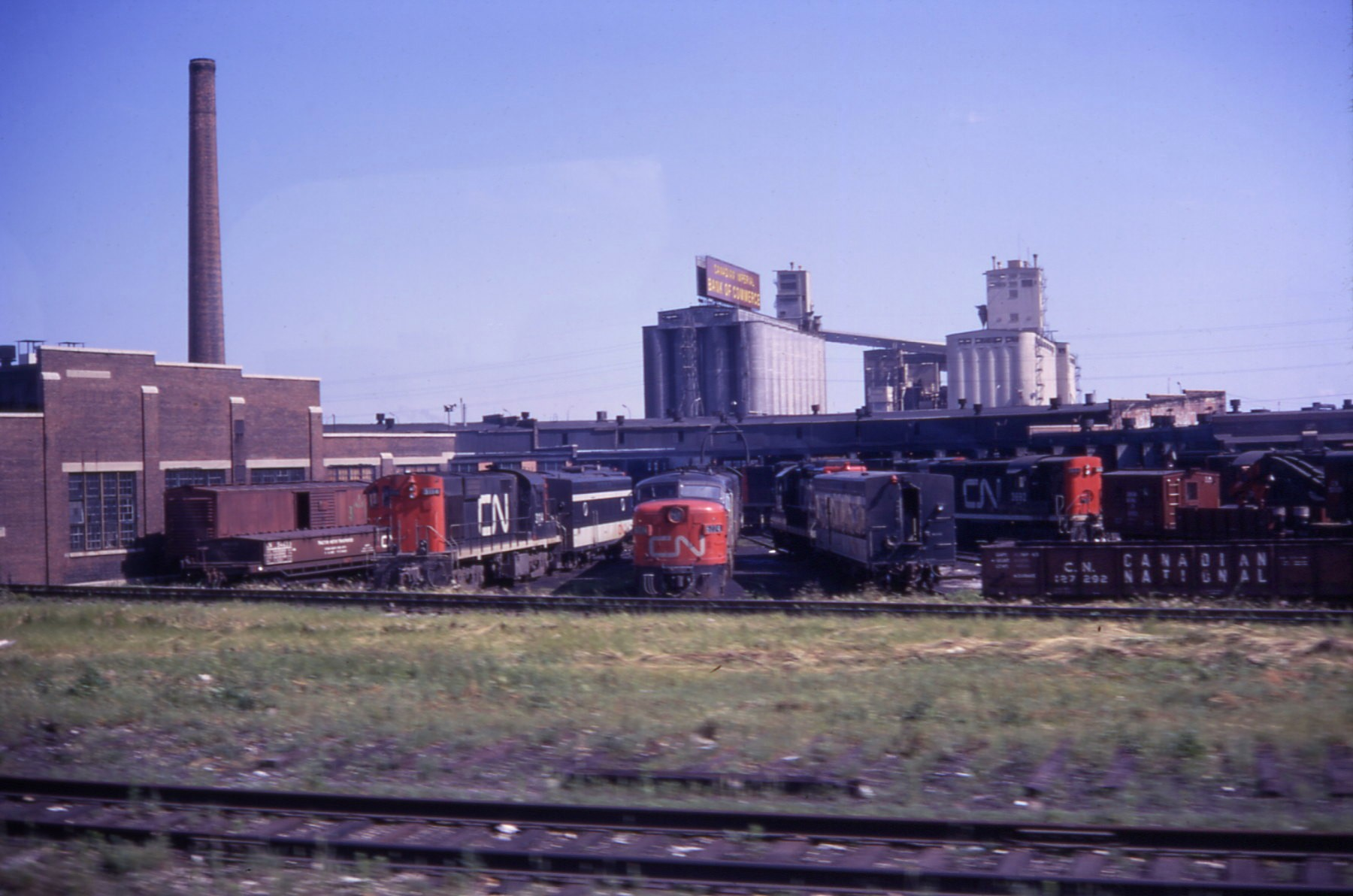 Locomotives at the Canadian National Railways Spadina Roundhouse in Toronto in 1968. Built in 1928, the Spadina Roundhouse was demolished in 1986 to make way for the SkyDome (now the Rogers Centre). The nearby Canadian Pacific Railways John Street Roundhouse still exists, now housing a brewery, museum and furniture store (and serving as the focal point of Roundhouse Park).